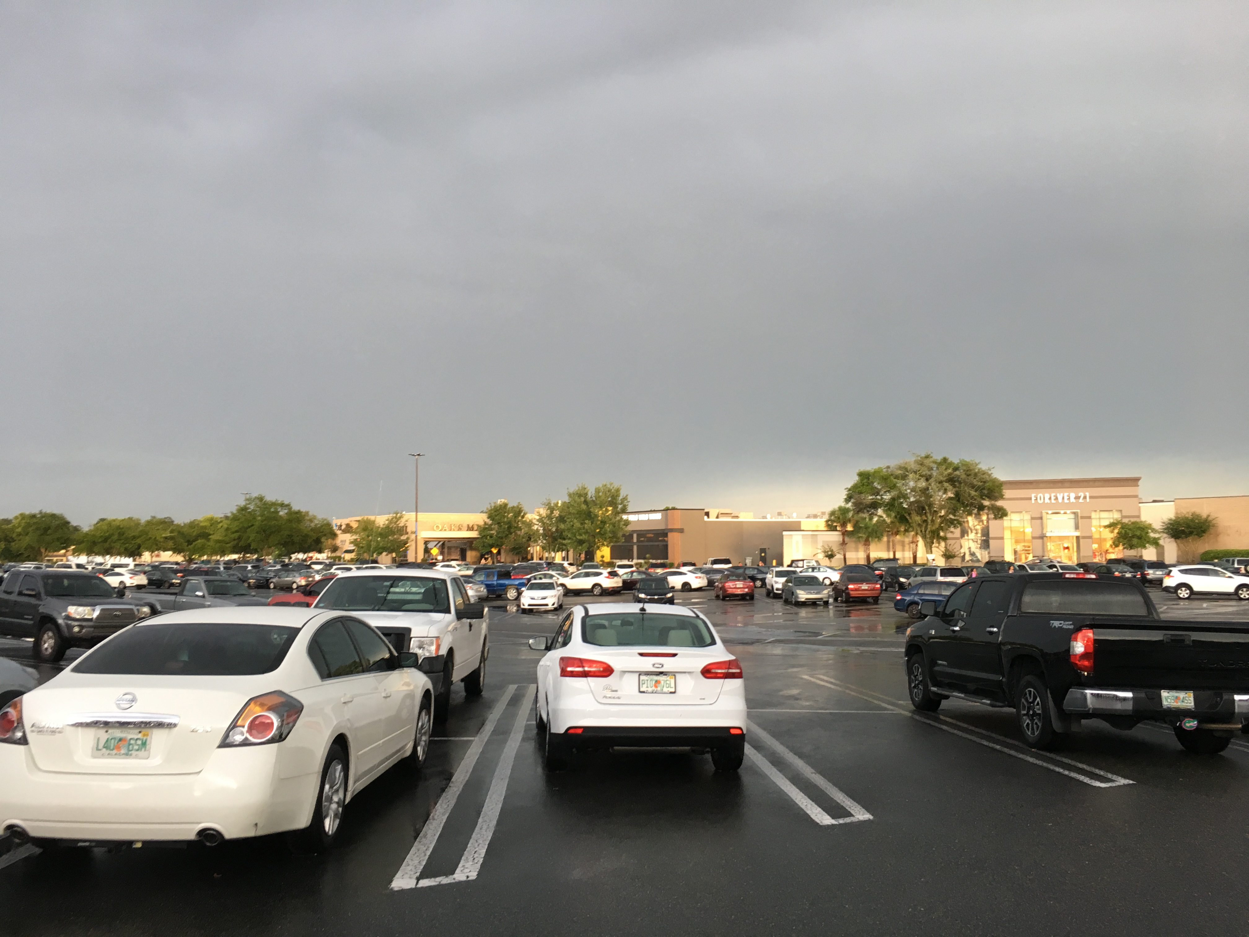 The Oaks Mall